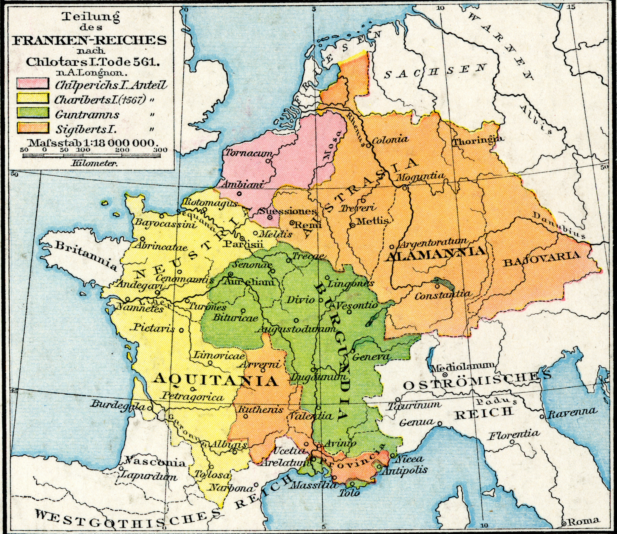 Second inset from plate 20 of Professor G. Droysens Allgemeiner Historischer Handatlas, published by R. Andrée. Shows the Frankish kingdom in 561.